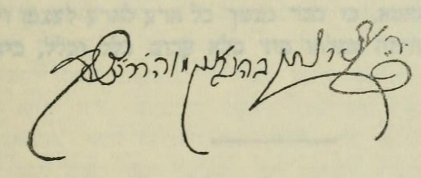 The Autograph of the above-mentioned rabbi, written down before his death in 1809.